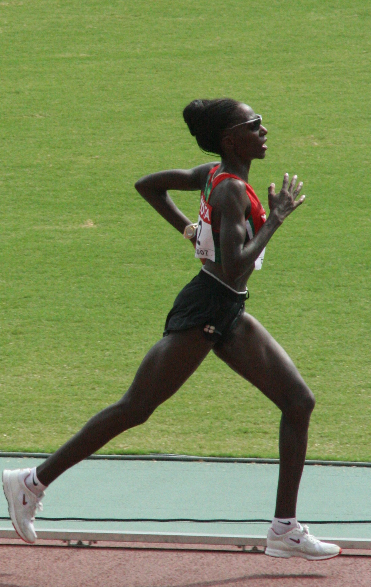 World Athletics Championships 2007 in Osaka - Marathon winner Catherine Ndereba on her last 50 metres